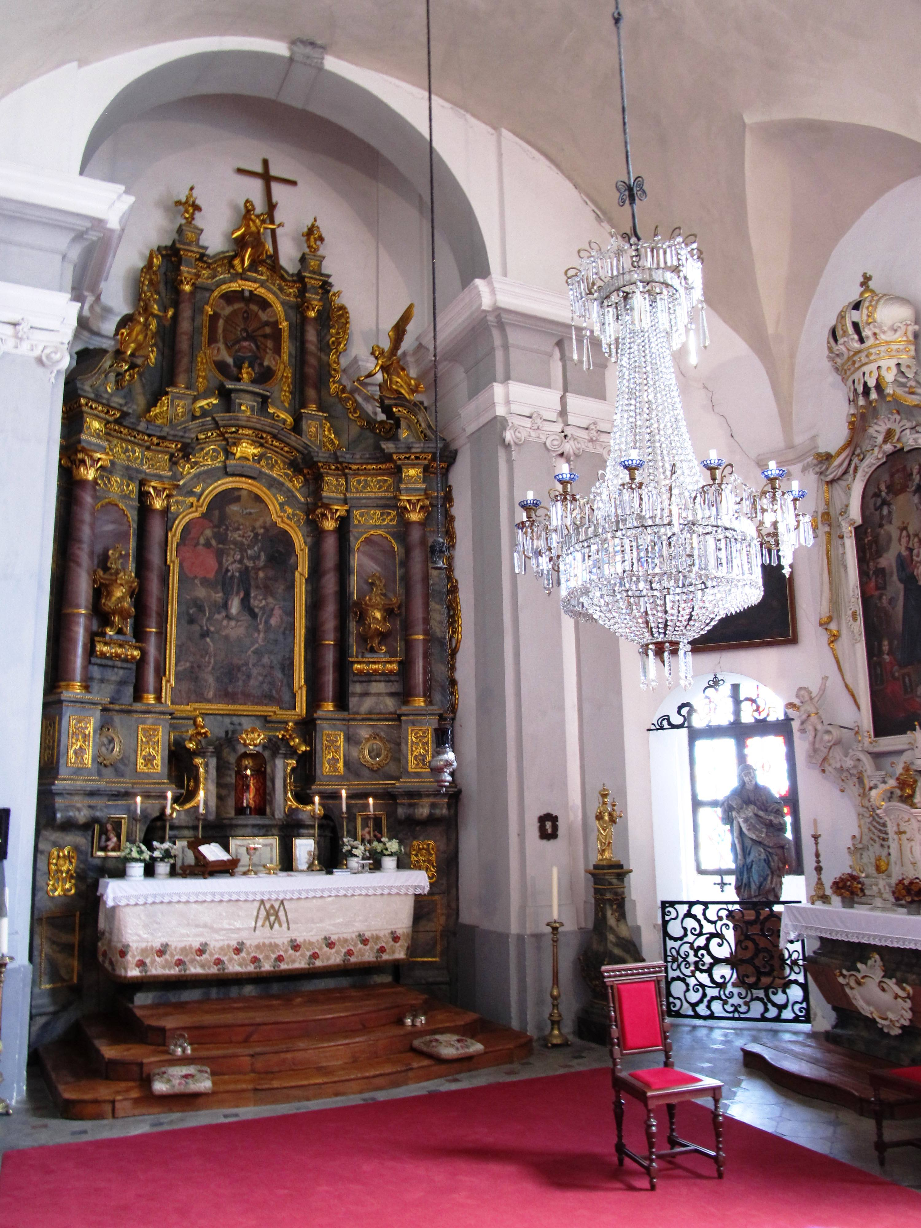 Chapel, castle Hruby Rohozec